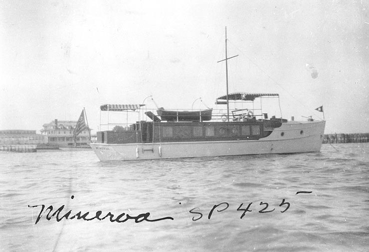 The motorboat Minerva, prior to her service as the United States Navy patrol vessel USS Minerva (SP-425).